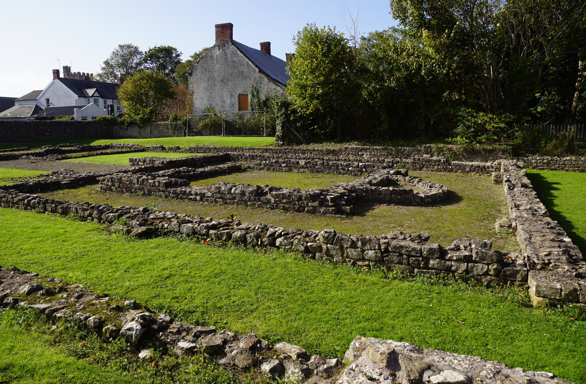 Caerwent, Wales. Temple in the Roman Town Venta Silurum.